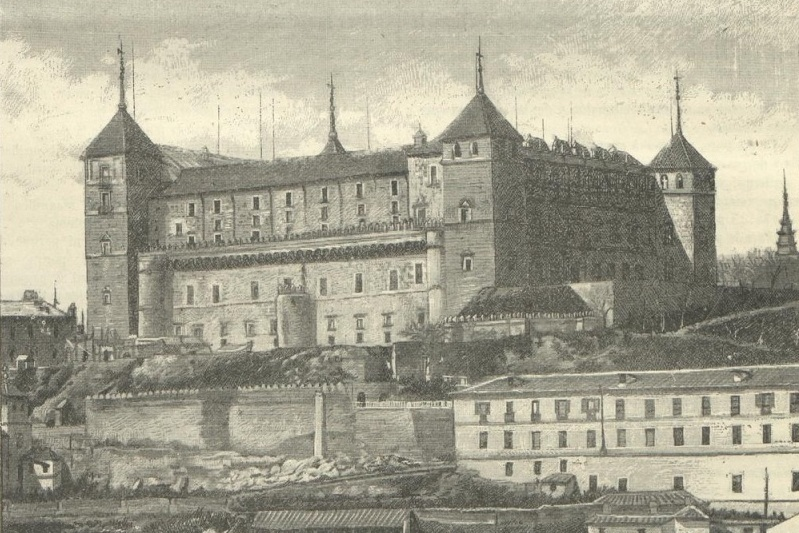 Toledo